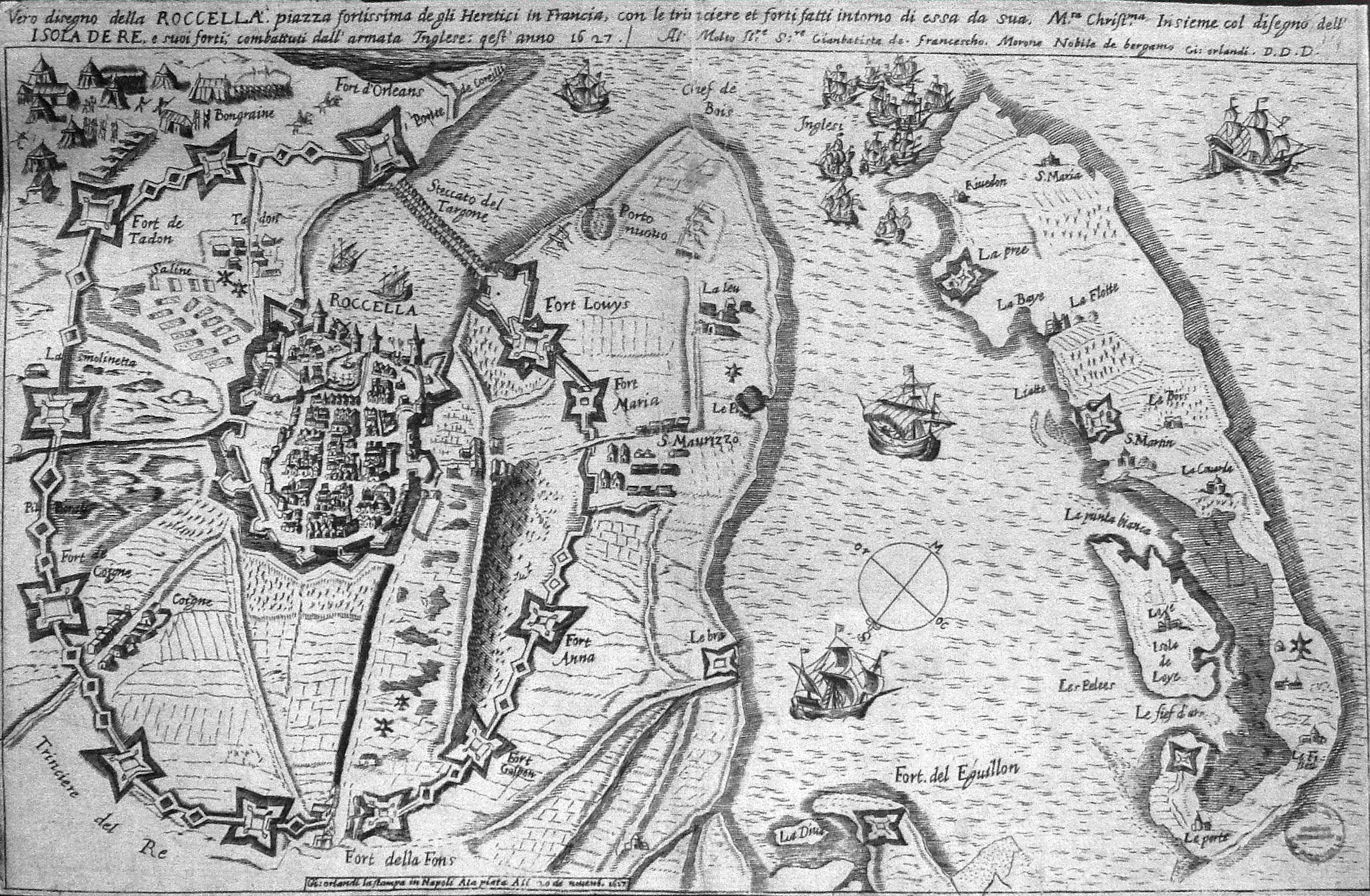 Siege_of_La_Rochelle_by_Orlandi_1627